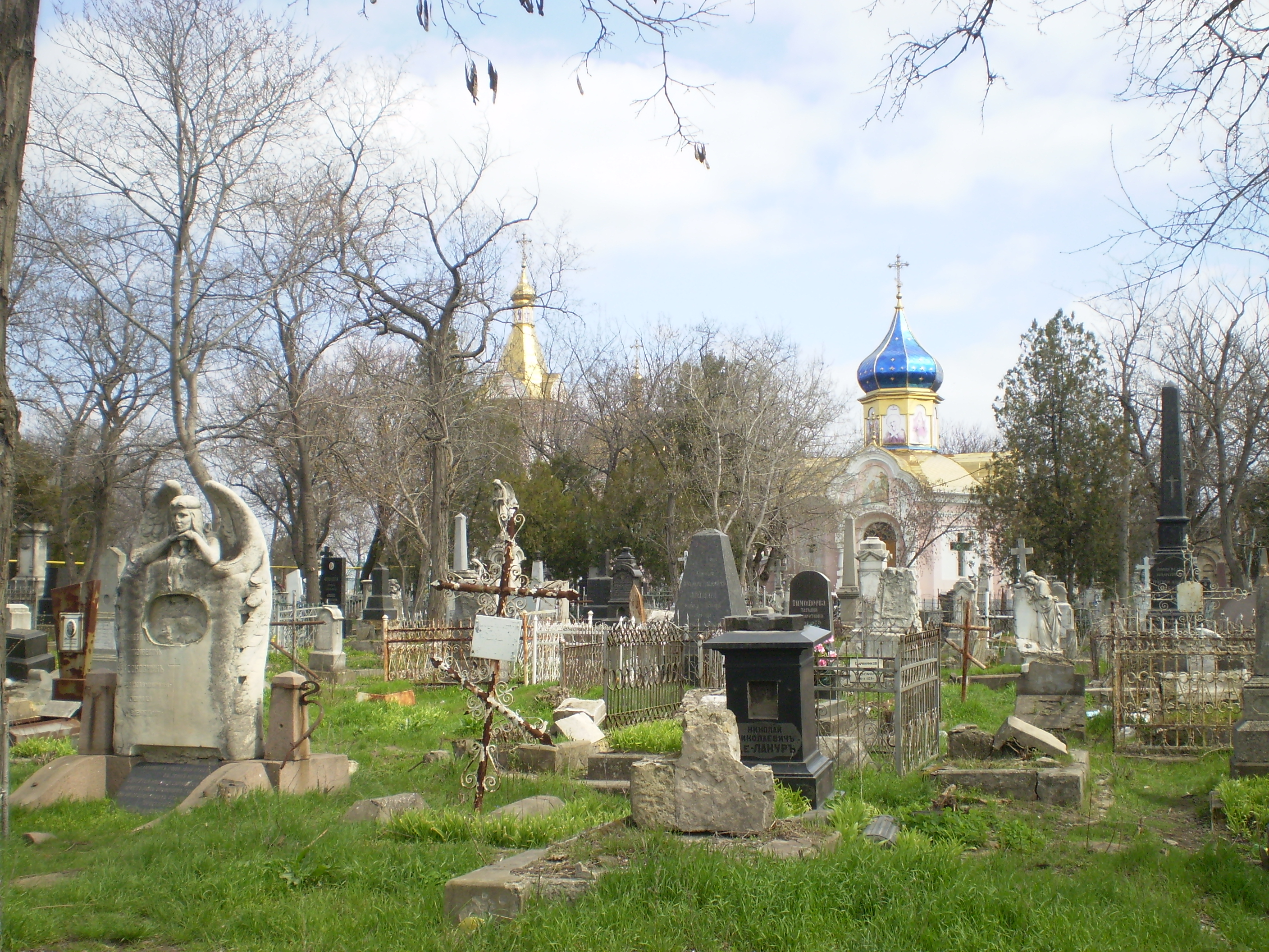 на задньому плані - Церква усіх Святих (1808) - єдина церква в місті, яка жодного разу не припиняла служби Миколаївська весна у Вікіпедії